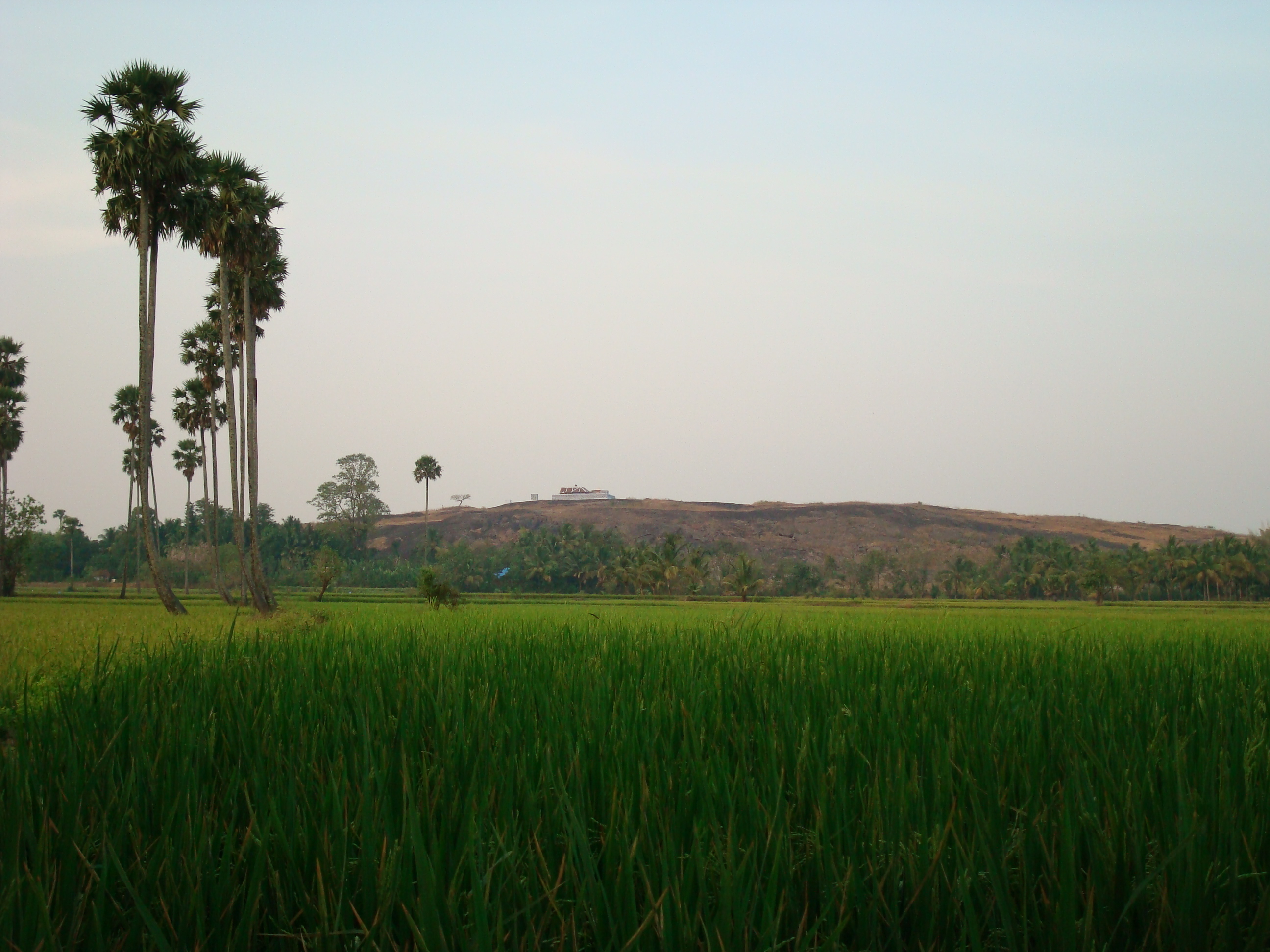 Dilip Krishnan Picture taken by self